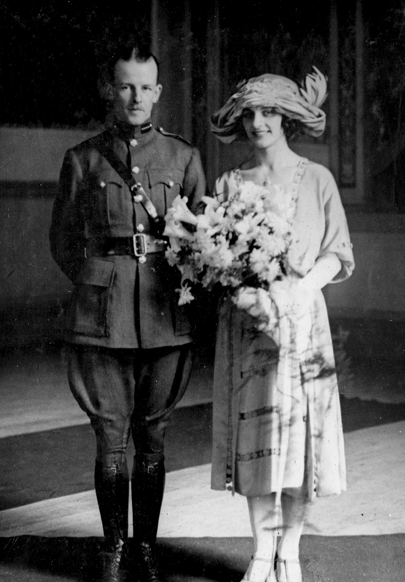 When I selected this from the archive I thought I recognised the man but I was not sure. Now getting the photo ready to post I see the following from the archive Photographic print of Major General Emmet Dalton and his new bride on their wedding day. They were married in October 1922. Title taken from inscription written on mount under print . It tends to confirm my guess, what do you think?.... ....and with thanks to today's excellent contributions it seems confirmed that this is indeed Major General Emmet Dalton and Alice Shannon on the day of their wedding in October 1922 at Clarence Hall in the Imperial Hotel, Cork. [/photos/20727502@N00/ Guliolopez] shares a contemporary newspaper article on the wedding which described the bride's attire as: a petunia frock, and she wore a silver grey hat of chiffon velvet, and silver grey shoes and stockings. She carried a bouquet of chrsyanthemums and lilies Their marriage took place during the Civil War, just a few months after Dalton championed the offensive against anti-treaty strongholds in the area (during which his friend Michael Collins was killed). Dalton left the army within a few months of this photo - possibly due to Collins' death or the reprisal killings which marked the latter stages of the Civil War. He later became involved in the film industry - founding Ardmore Studios (coincidentally up for sale this very week).... Photographer: W. D. Hogan Collection: Hogan Wilson Collection Date: October 1922 NLI Ref.: HOGW 191 You can also view this image, and many thousands of others, on the NLI’s catalogue at